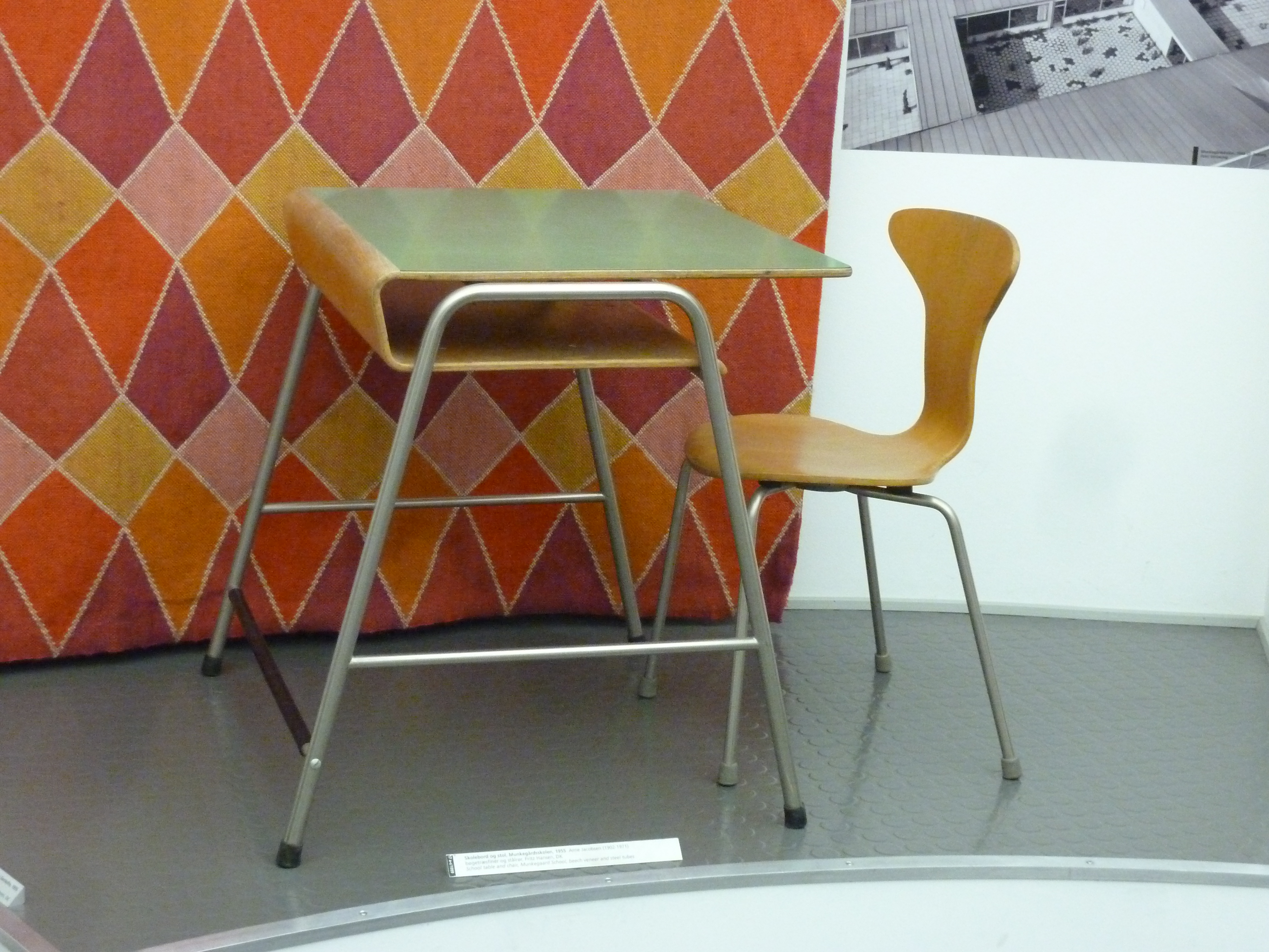 Arne Jacobsen's school dest from his Munkegaard School exhibited at Designmuseum Danmark